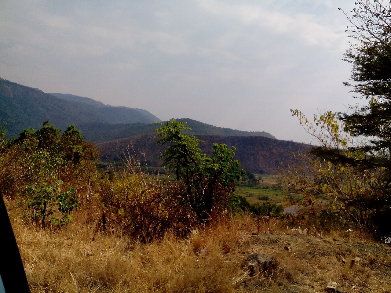 Nyika Highlands, from the M1 road. Rumphi, northern Malawi